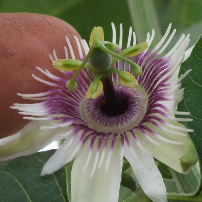 Passiflora morifolia